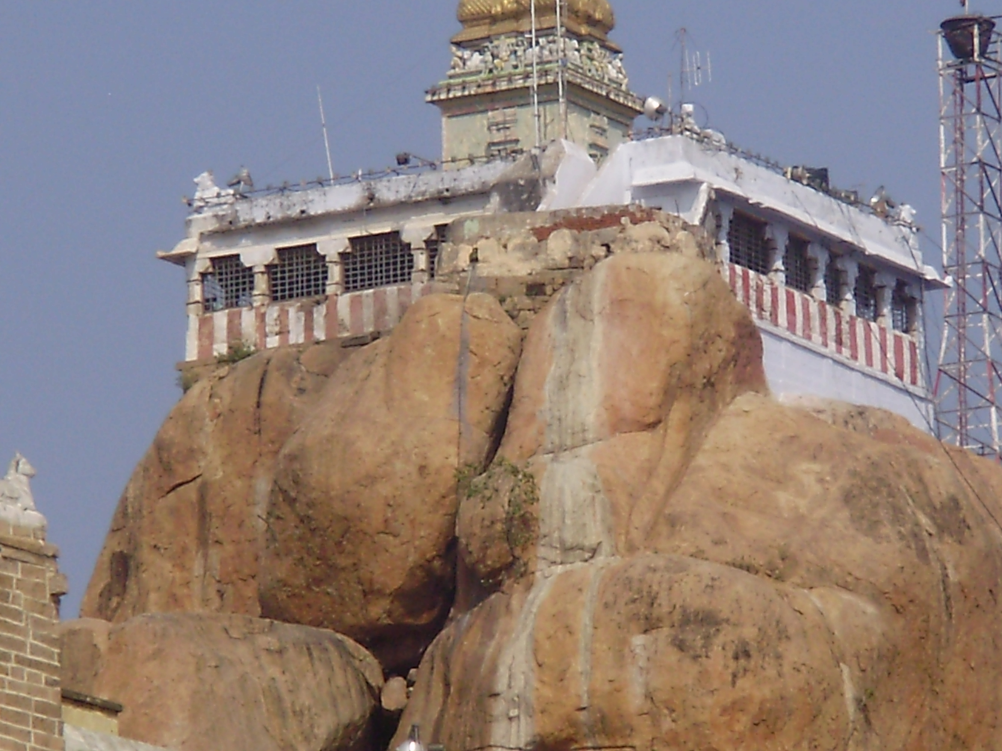 CLOSE UP OF UCHHIPPILLIYARKOVIL TRICHY